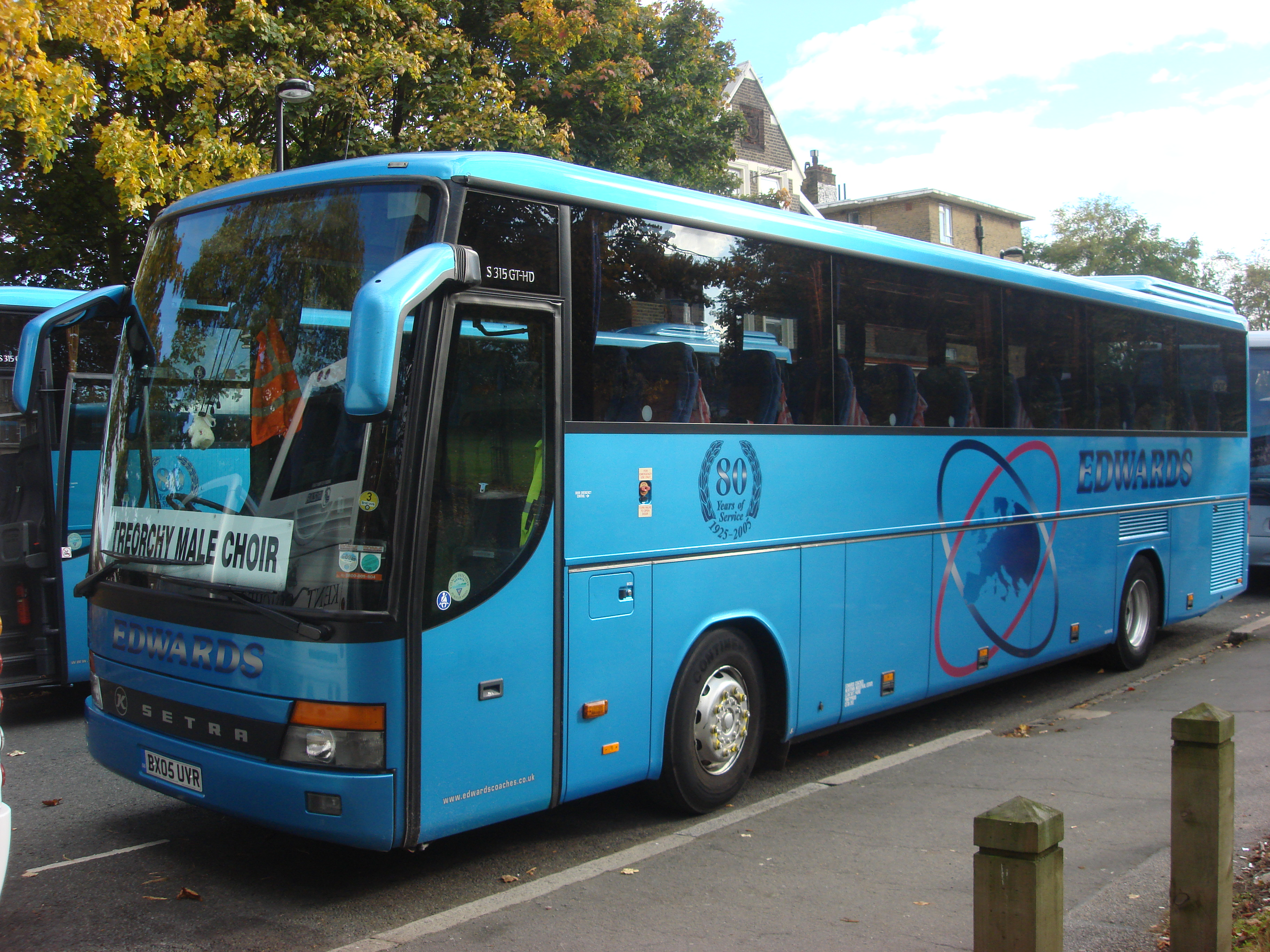 Setra S 315 GT-HD Edwards Coaches vehicle at Vauxhall, London.